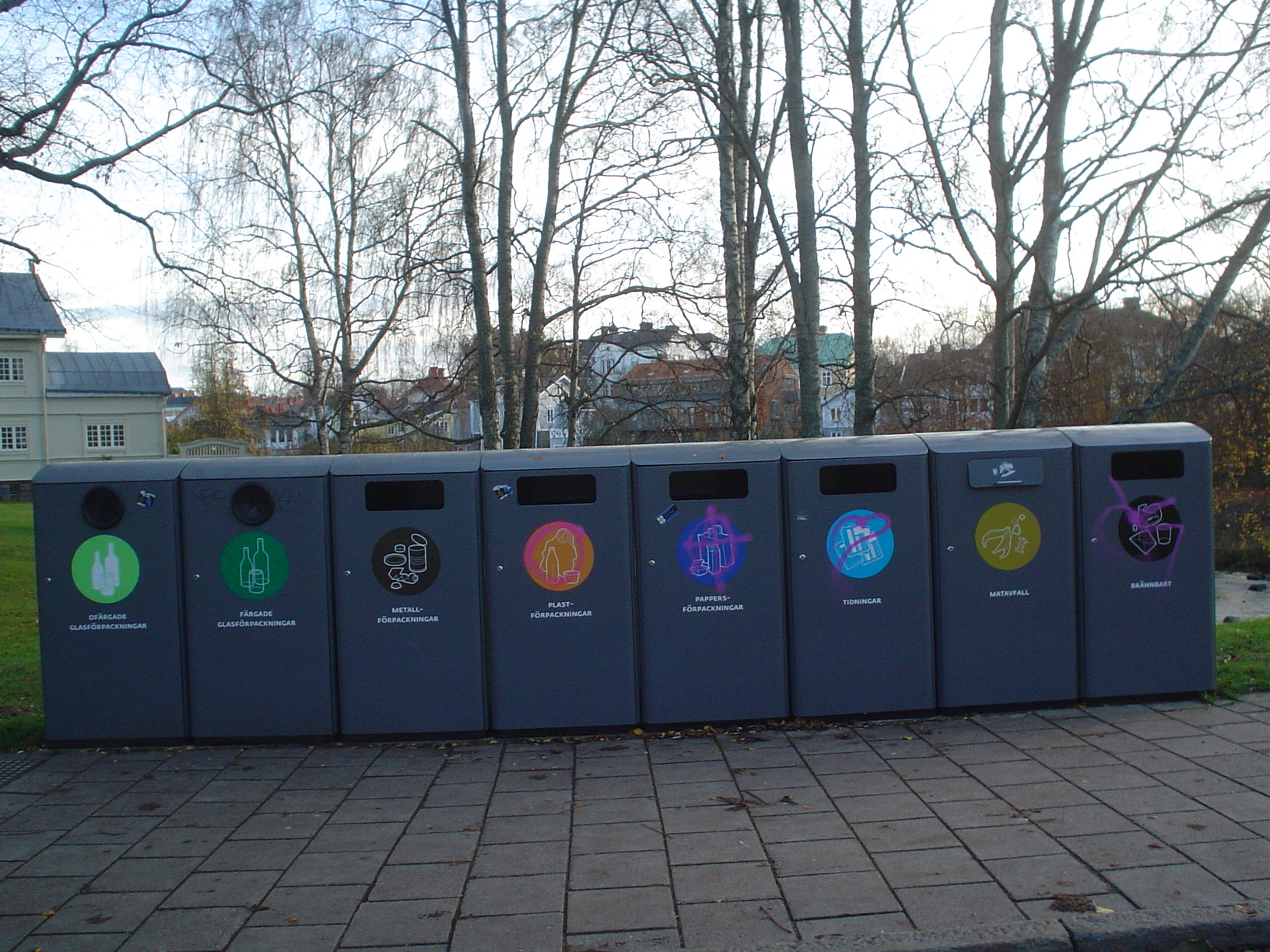 Waste sorting Gavle, Sweden